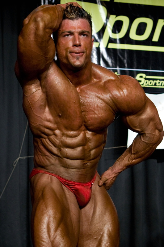 Tony Breznik beim Kampf um den Meistertitel 2008